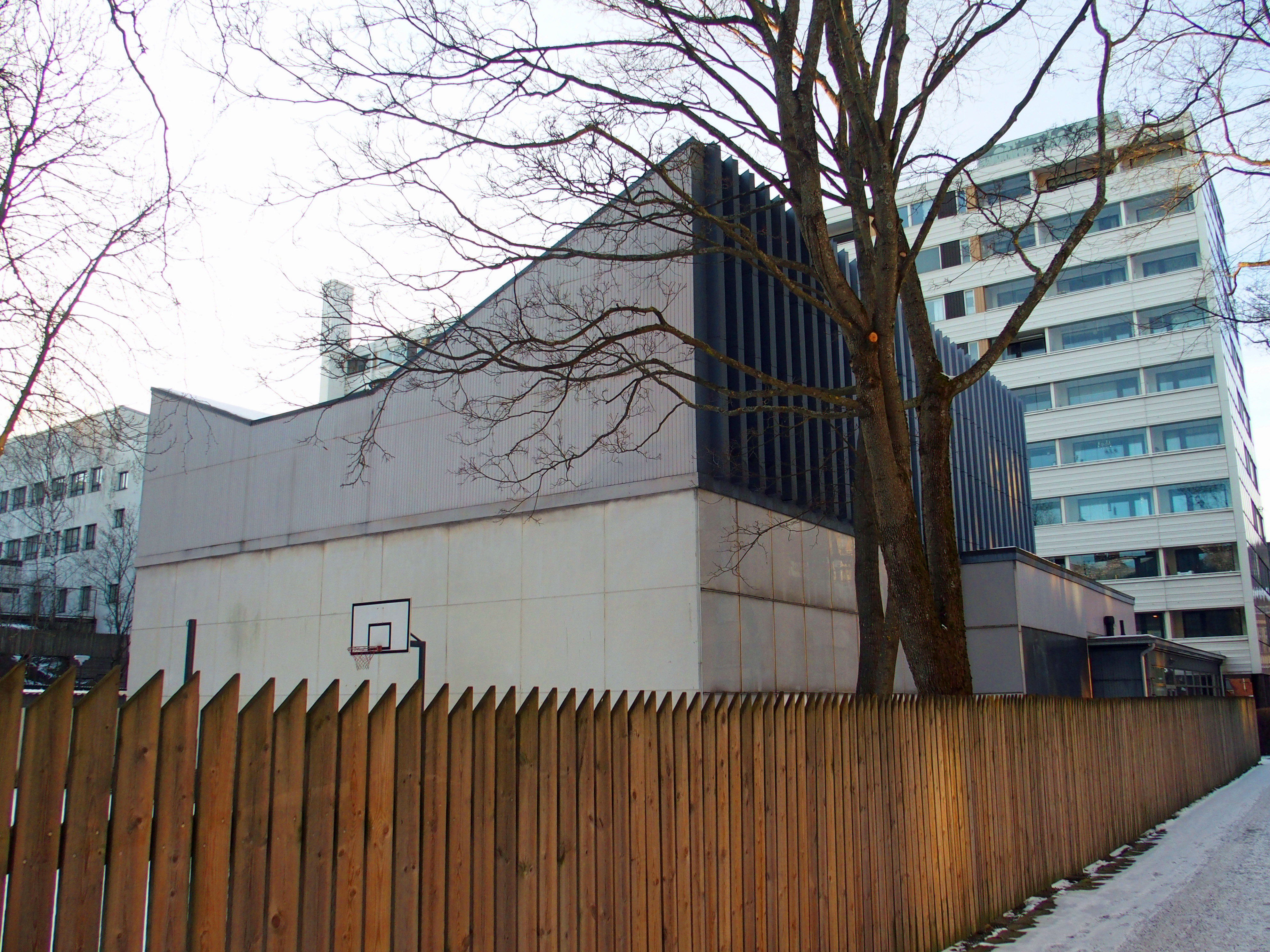 Lutheran chapel of SLEY (Suomen Luterilainen evankeliumiyhdistys), Rauhankatu 8a, Turku, Finland, seen here from southeast. Architects Tauno Salo & Olavi Heikkilä, 1967.